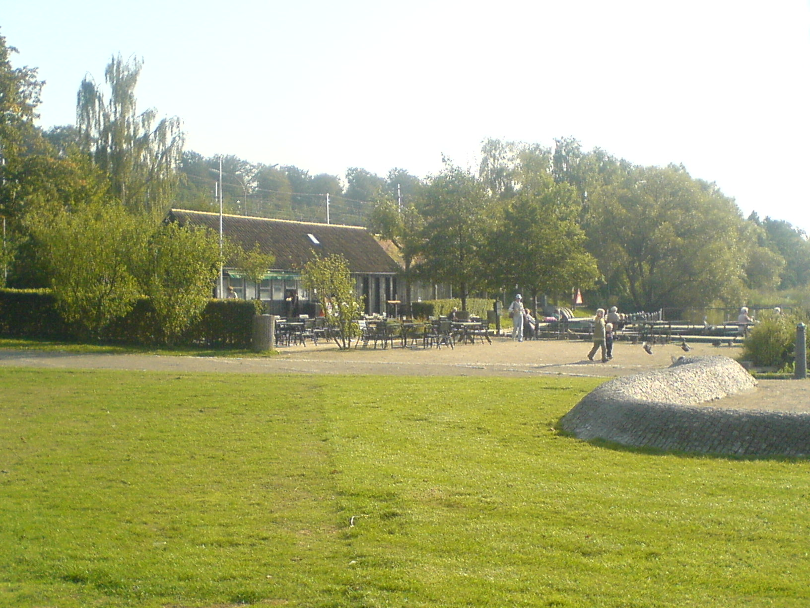 Image of "Holte Havn" (Habor in Holte, Denmark)